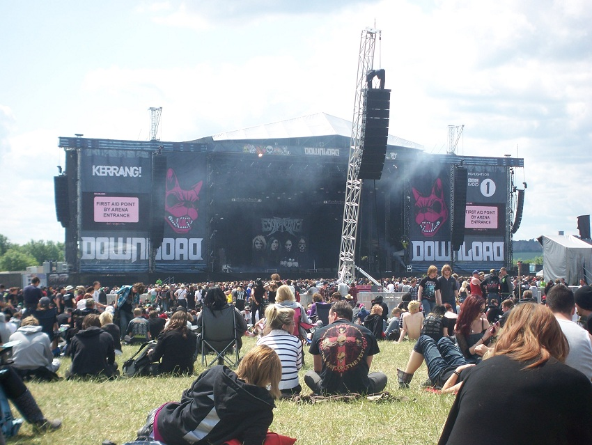 This is my own work, taken at Download festival 2011. I allow the photo to be used on Wikipedia to help improve the visual quality of the Download festival article.